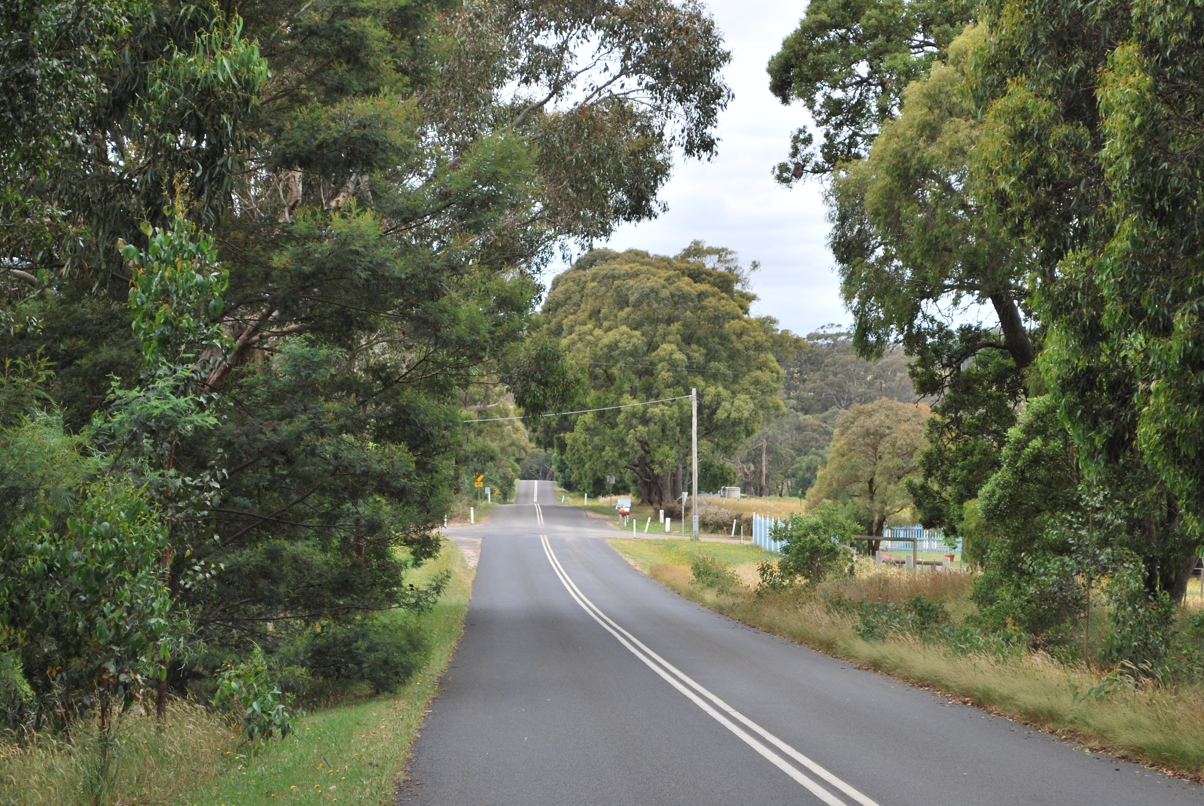 Ashbourne Road at Ashbourne, Victoria, looking down towards the Campaspe River